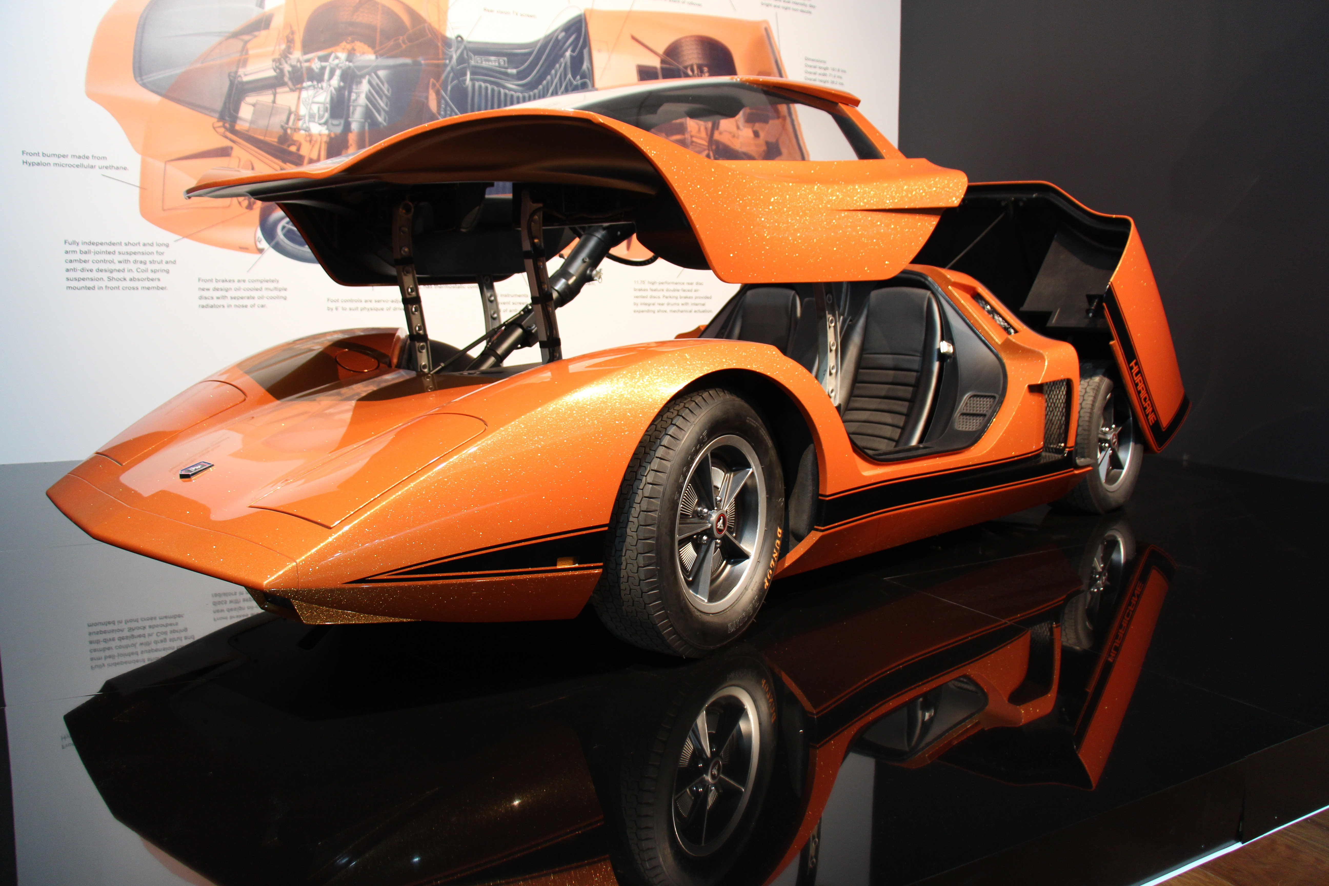 This Holden developed concept car got a wedge shaped fibreglass body, its canopy lifts up and over the front wheels for passenger access. It was well ahead of its time with closed circuit tv for rear vision, GPS and digital instruments This car was restored to original design in 2006, finishing in 2011 Engine; mid mounted 259bhp 4200cc Holden V8 Photographed at the Shifting Gear Exhibition in Melbourne